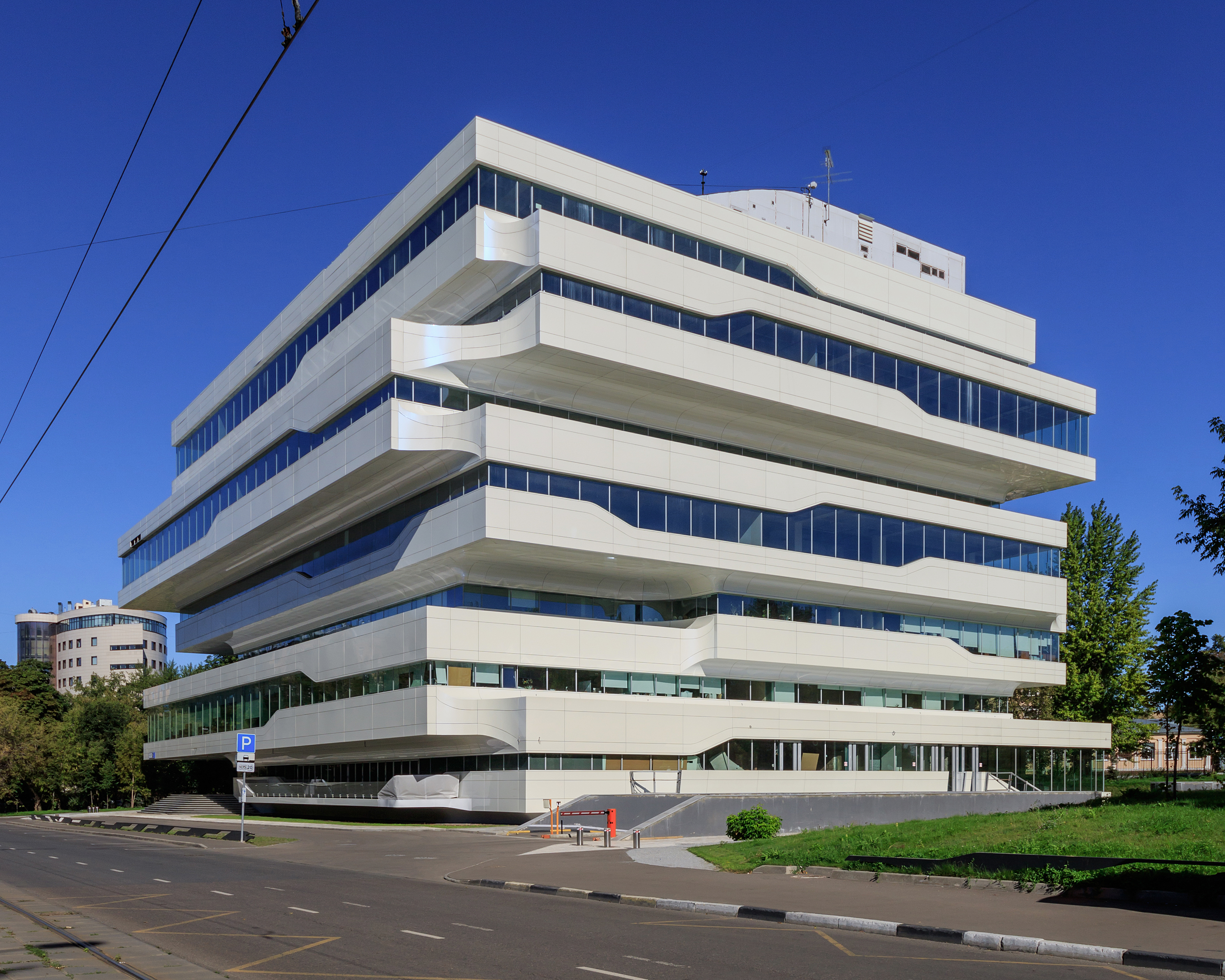 The «Dominion Tower», an office building by Zaha Hadid. Moscow, Russia.